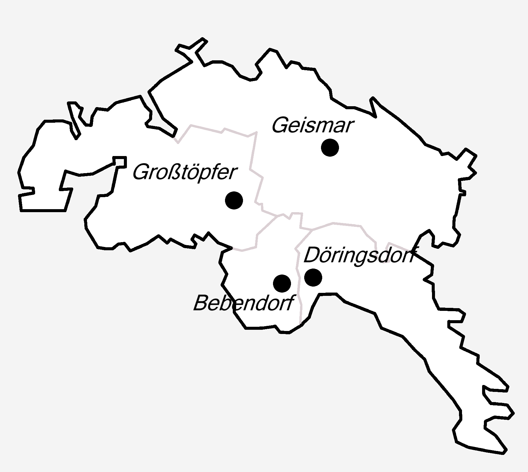 District-Maps of Geismar (Eichsfeld).